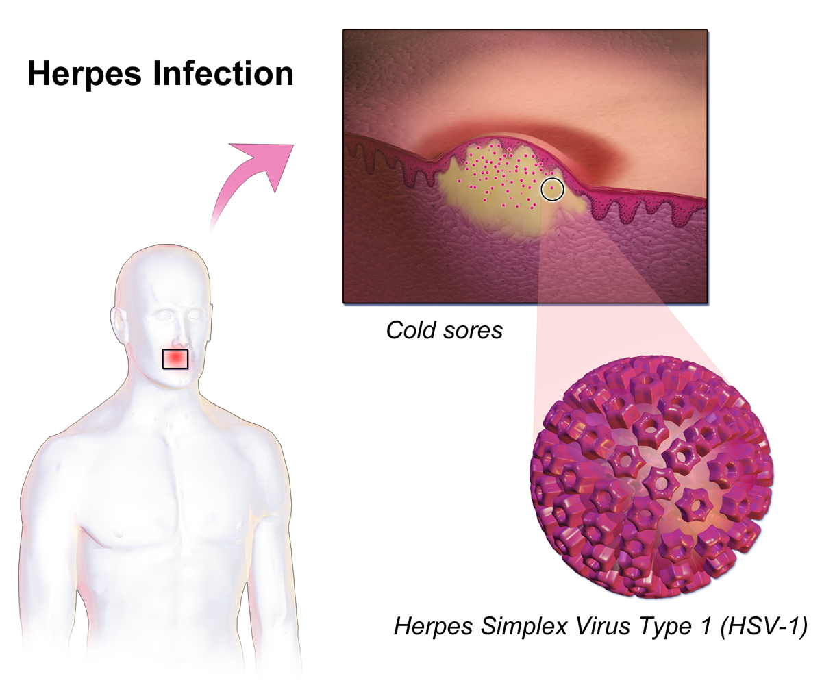 Herpes Infection. See a full animation of this medical topic.